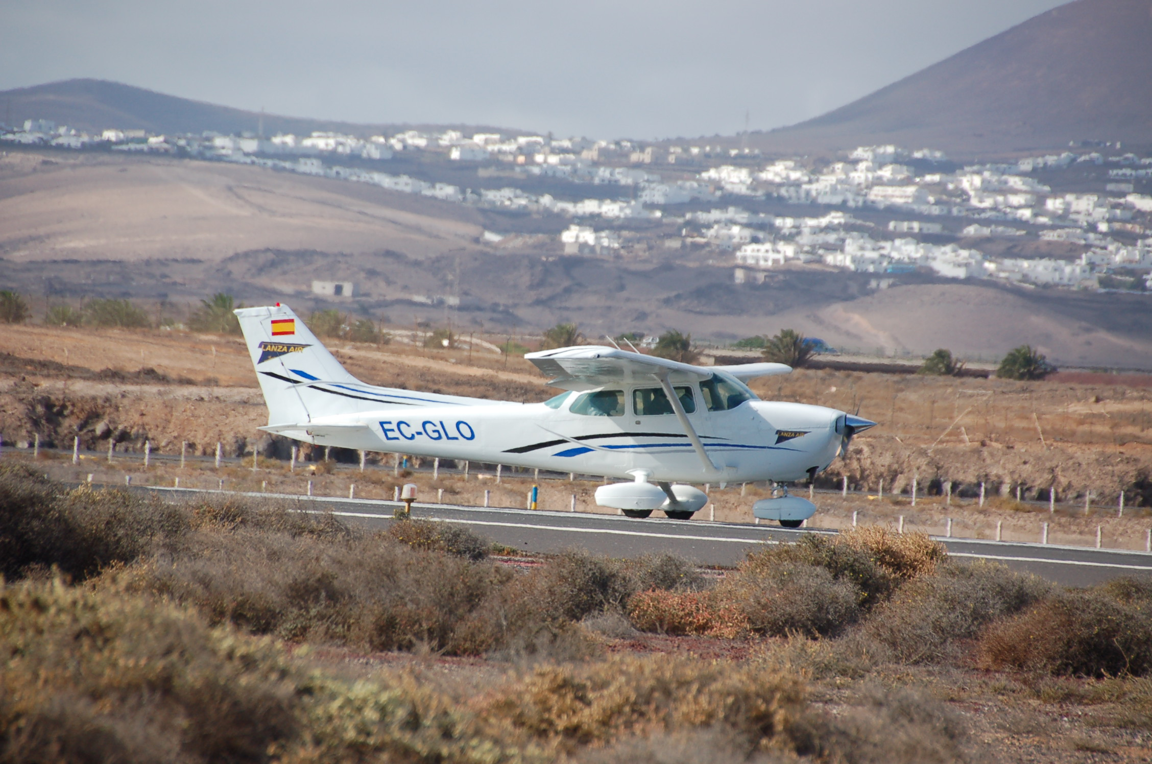 Cessna 172 at Arrecife-ACE,Lanzarote,Spain,15/11/07.